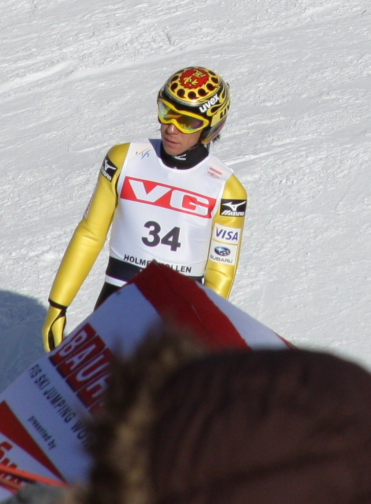 Noriaki Kasai in WC Oslo, Holmenkollen, 14 march 2010